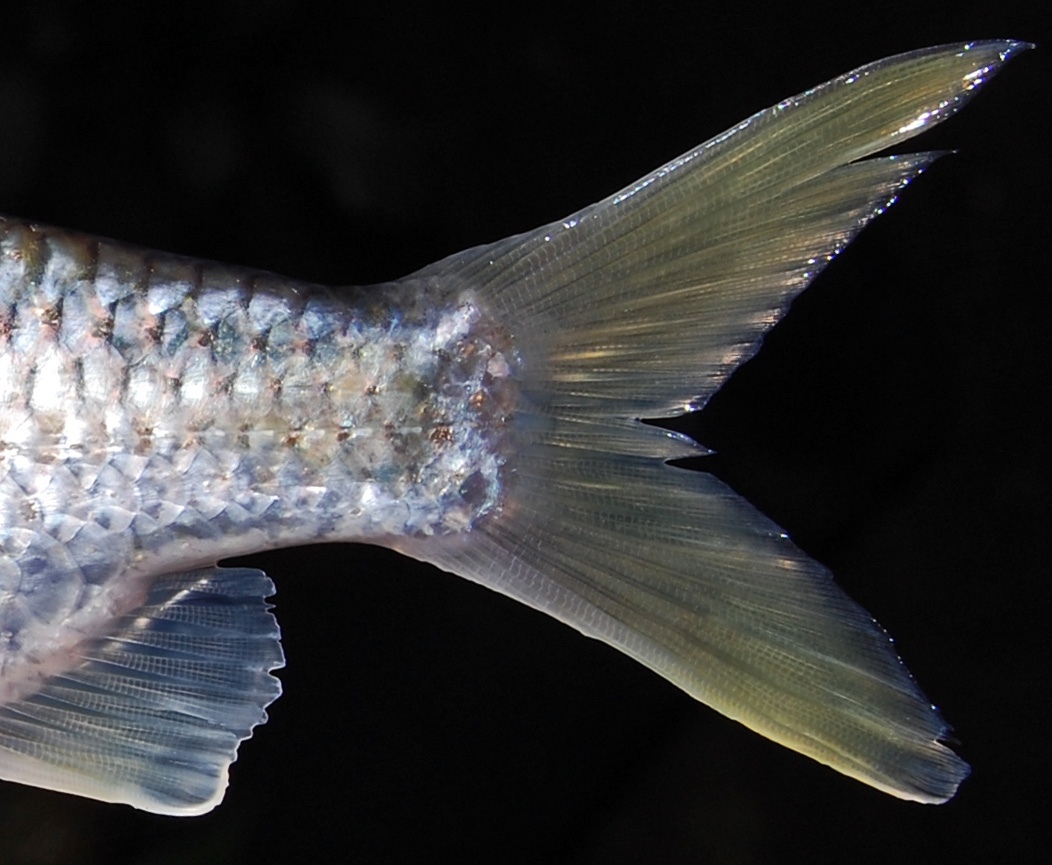 Barbonymus gonionotus (122mm SL), caudal fin (tail). From Cisadane River, Situgede, Bogor, West Java, Indonesia erratum: Misidentified, it should be Mystacoleucus marginatus